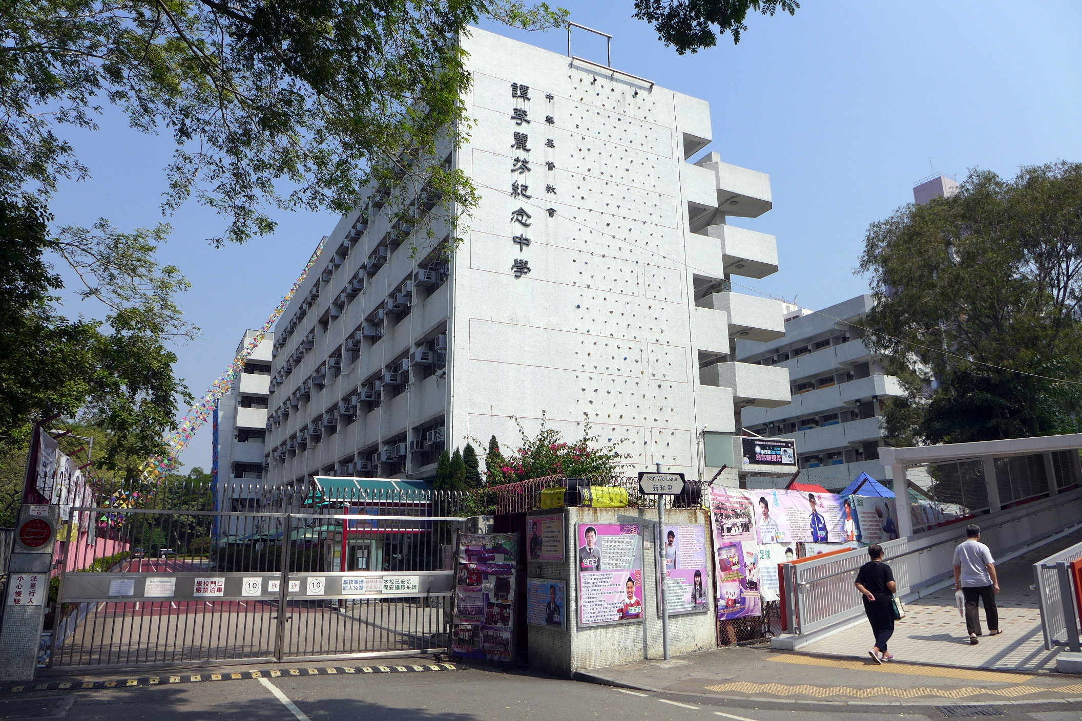 CCC Tam Lee Lai Fun Memorial Secondary School